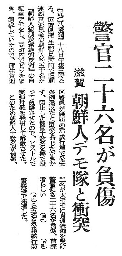 Asahi Shimbun newspaper clipping (19 December 1951 issue)